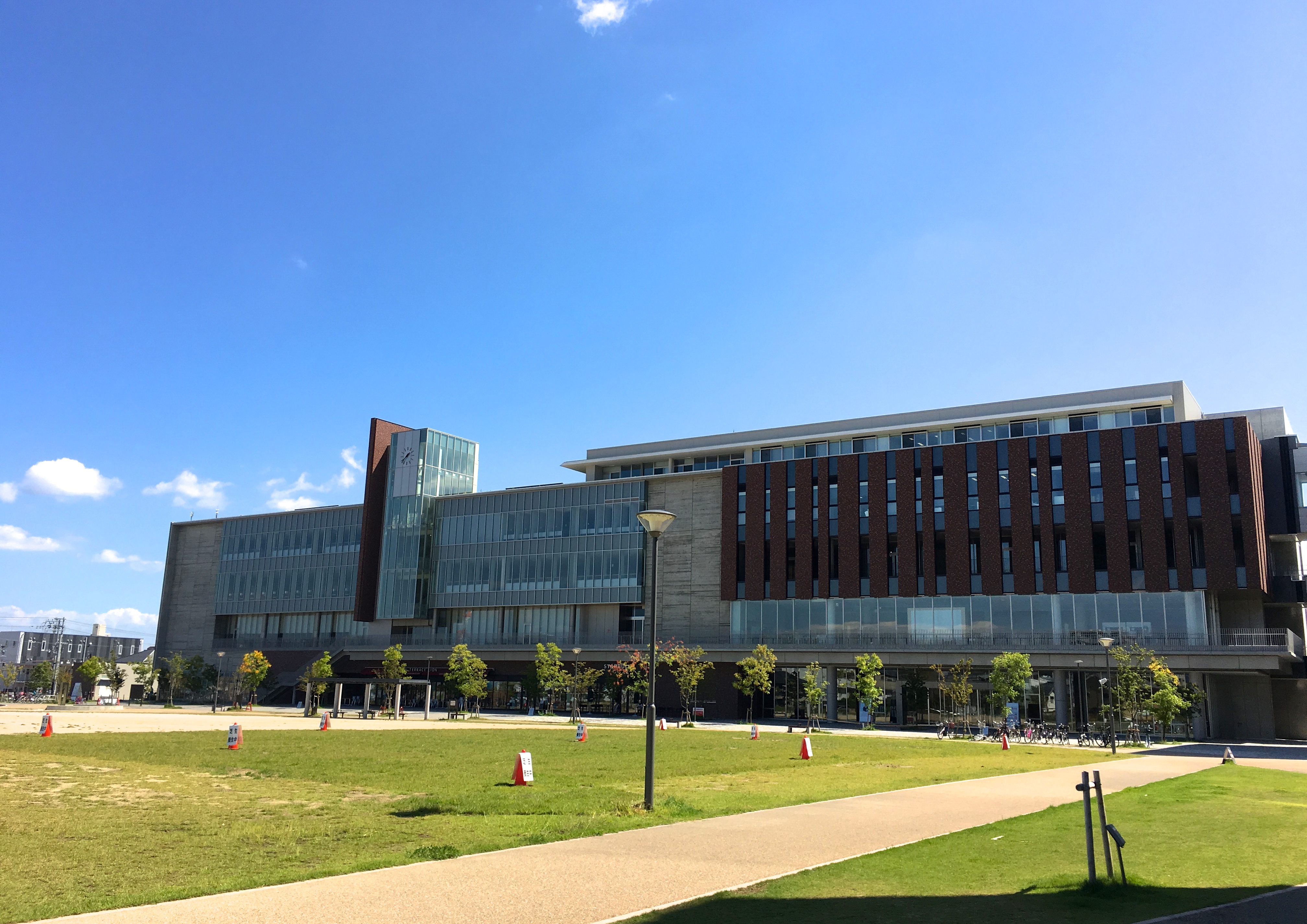 Building B at Ritsumeikan Univ Osaka Ibaraki Campus